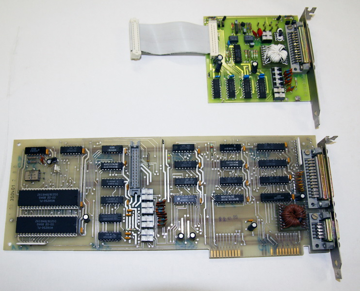 Robotron Personalcomputer EC 1835 Prototype (1990), IO-Adapter, recorded in "Industriemuseum Chemnitz", Germany